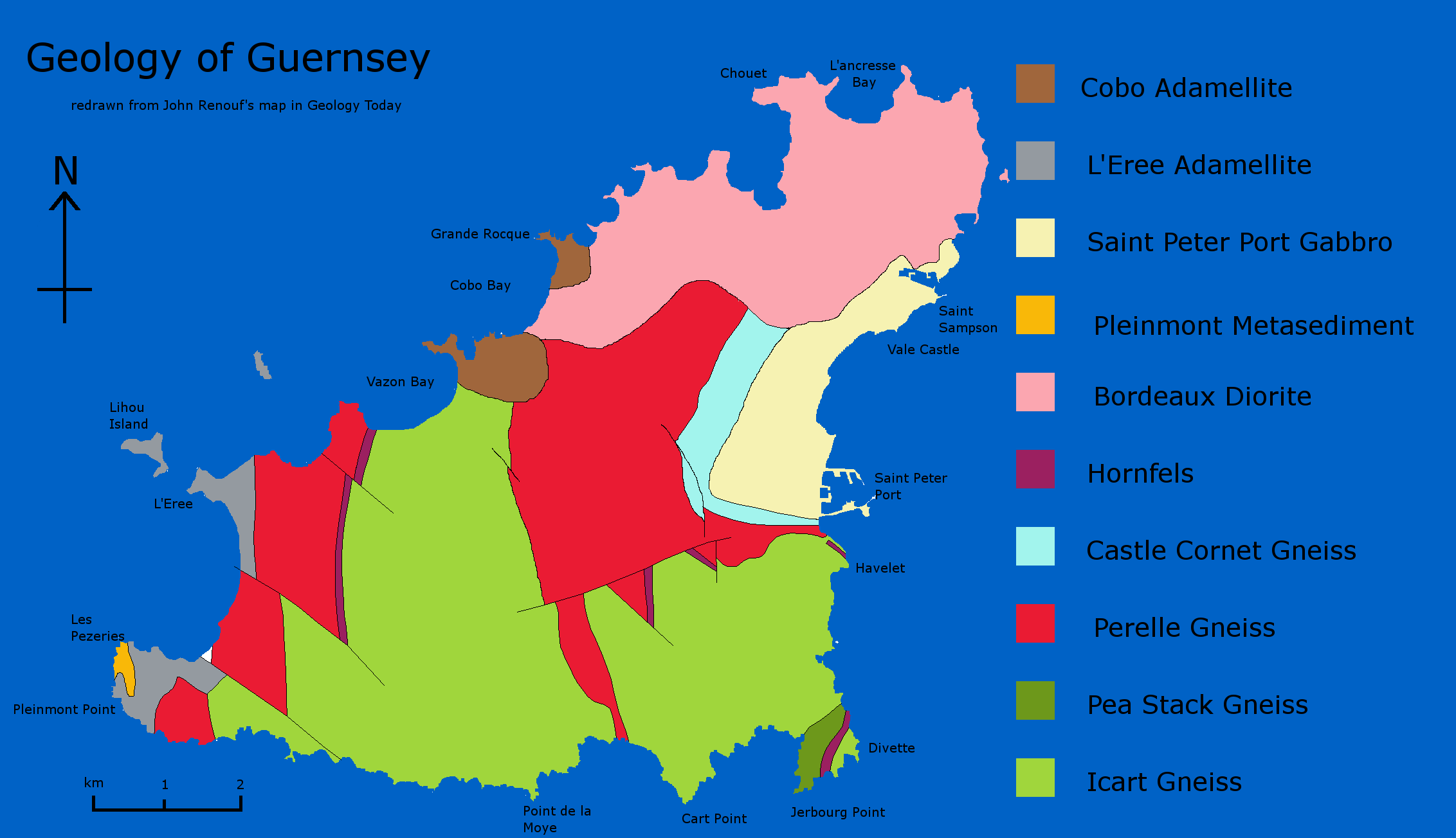 rock types in Guernsey, based on work of John Renouf in Geology Today vol 1